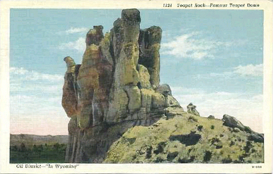 "Teapot Rock-Famous Teapot Dome" "[Salt Creek] Oil District-In Wyoming," historical postcard